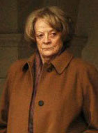 Dame Maggie Smith in Kensington Gardens filming 'Capturing Mary', 7th March 2007. Shot with a long lens from the nearby path in a break between filming. The weather was cold and she appeared to be taking shelter.